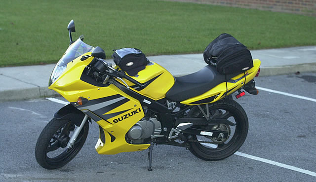 2004 GS500F with Suburban Machinery handlebars.